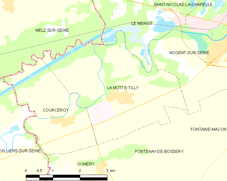 Map of the Commune La Motte-Tilly. In the Aube department, Champagne-Ardenne region of France.